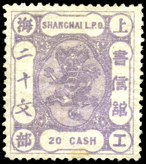 Shanghai 20-cash stamp of 1877